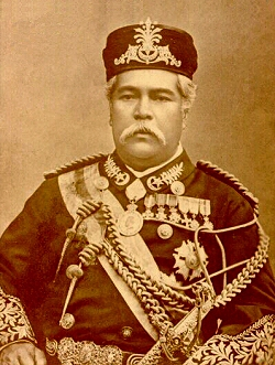 The sultan died in 1895, and between anytime 1885-1895. Johor(e) was an Unfederated Malay State in the British Empire at that time. Also, due to age, hence it is in the public domain. The photo was taken from here. This photo is also found in this book: History of Malaya (1400-1959), published by Joginder Singh Jessy in 1960. This photograph can be released under the following licences, considering its age: Imej:Johor-AbuBakar.jpg